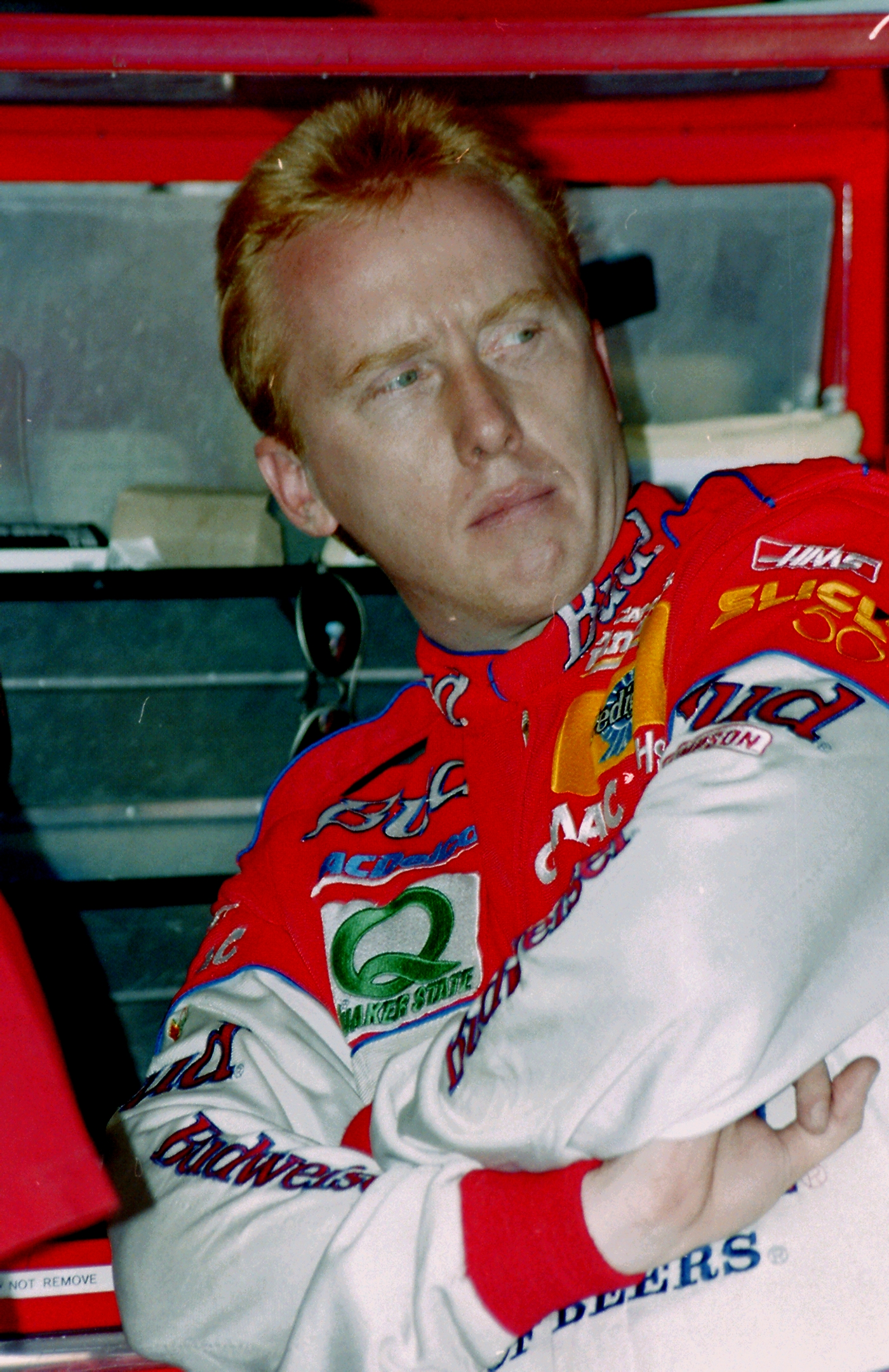 NASCAR driver Ricky Craven in 1997.